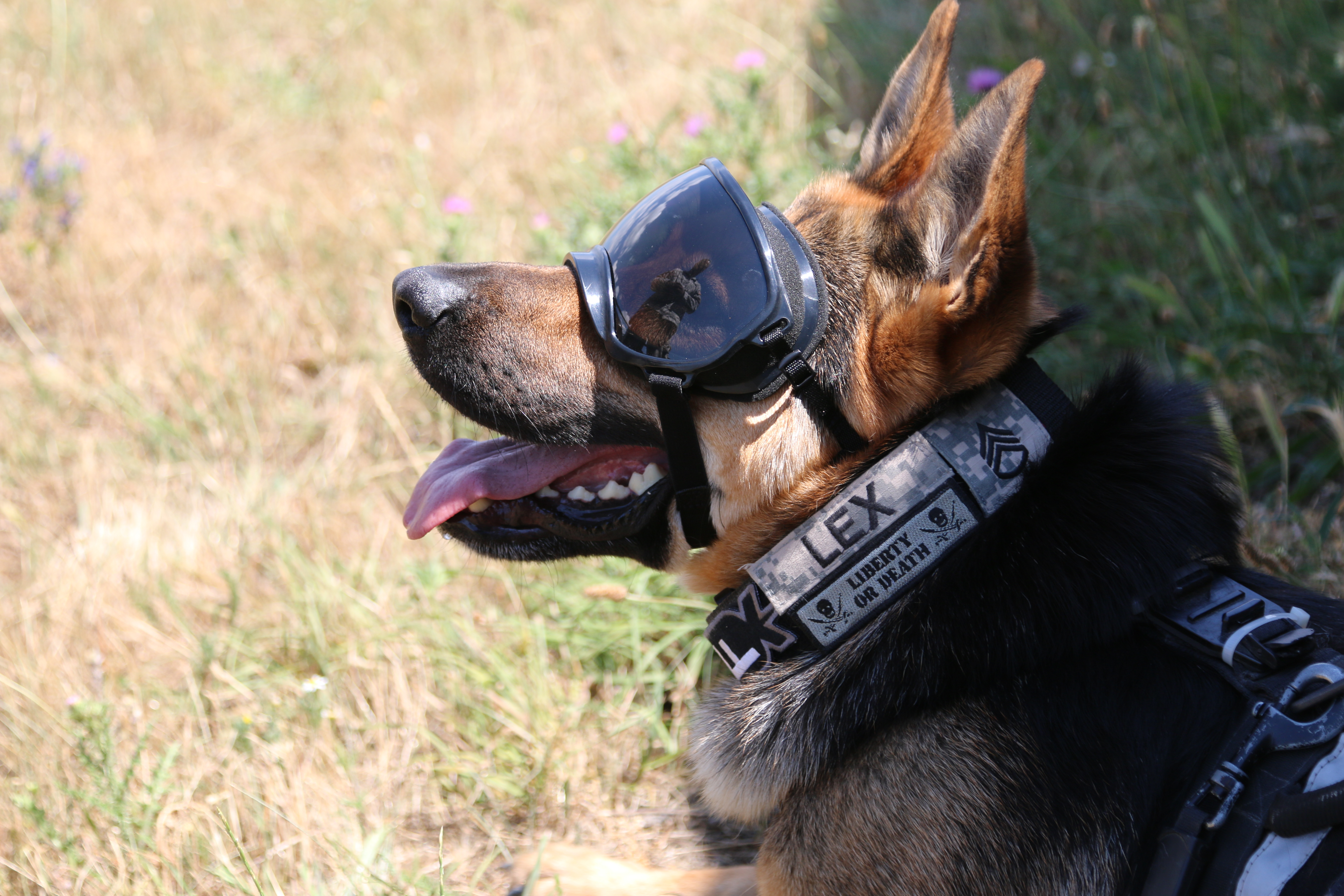 Army Staff Sgt. Lex, a Military Working Dog Handler, assigned to the 525th Military Working Dog Detachment, out of Wiesbaden Germany, prepare for medical hoist training on Camp Bondsteel, Kosovo, July 23, 2015. Staff Sgt. Lex, a military working dog from the 525th Military Working Dog Detachment out of Wiesbaden, Germany, currently assigned to Multinational Battle Group-East, stands ready to being a medical hoist training event, July 23, 2015, at Camp Bondsteel, Kosovo. During the training, Lex was hoisted more than 75 feet into the air by a UH-60 Black Hawk helicopter, operated by F Company, 5th Battalion, 159th Aviation Regiment, out of Clearwater, Fla. The training was held to familiarize the flight crews, military working dogs and handlers with air medical evacuation procedures. (U.S. Army photo by Ardian Nrecaj, Multinational Battle Group-East) Unit: Multinational Battle Group - East (KFOR)